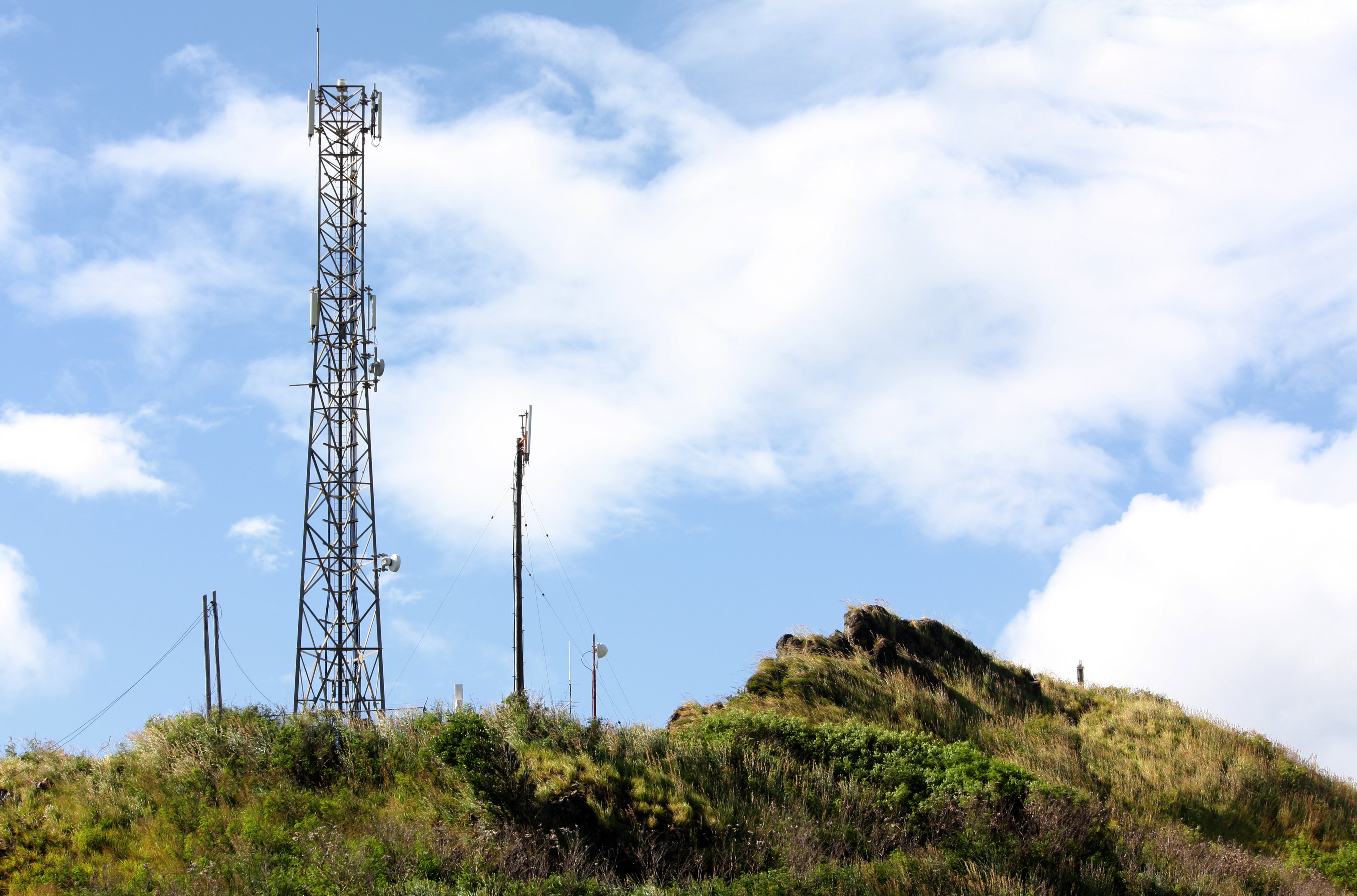 Scotts Head peninsula; Cable & Wireless facilities on top of hill. Saint Mark Parish, Dominica.